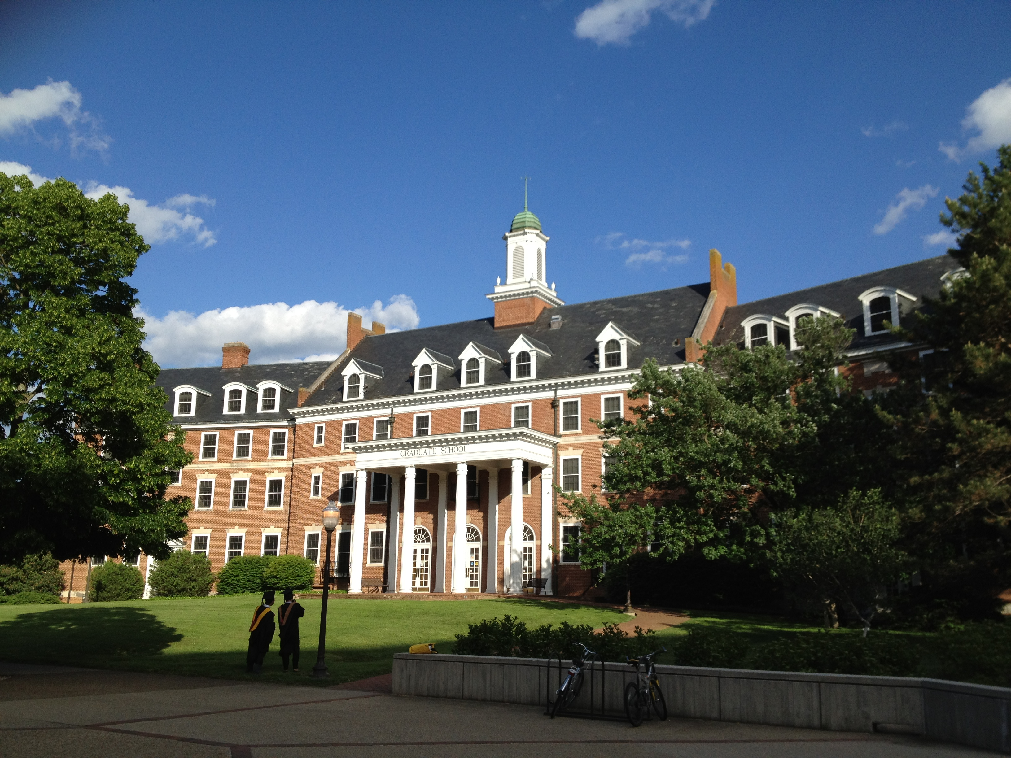 Donaldson-Brown Hall, Virginia Tech, Blacskburg, Virginia